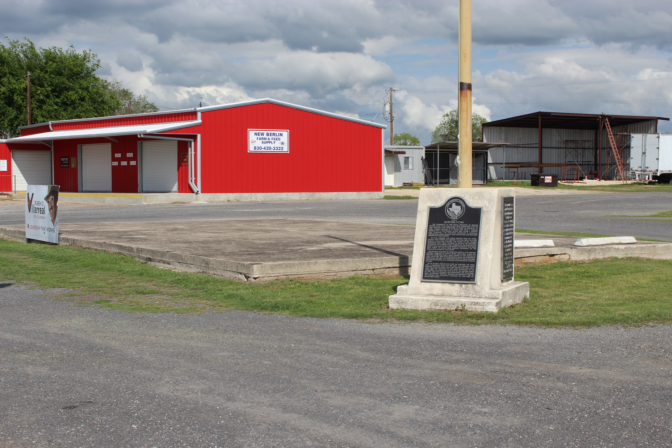 Site of Muelder Store. Site of Muelder Store The community of New Berlin developed as German settlers came to the area in the 1840s. Businesses, schools and churches were established to serve its residents. In 1898, Luedger Kuehler, H. E. Kalies and Otto J. Muelder entered into a partnership, which they called l. Kuehler and Company. The partners operated a general merchandise store, saloon and cotton gin, and brokered cotton for area farmers. In 1916, Luedger and Hulda Kuehler sold the store, saloon and cotton gin property to Otto (1872-1927) and Blanche (1876-1955) Muelder. The names of the various businesses then were changed to reflect the Muelders' ownership. The Muelder family carried on the tradition of service and sales to the New Berlin Community, providing vital credit to local farm families dependent on the speculative nature of cash crops. The business remained in operation after a 1927 hunting accident resulted in Otto's death and later, when the Muelder Store and family home burned to the ground in 1946. With help and encouragement from the community following the fire, the store relocated to what had been the Muelder Saloon and reopened for business in a matter of days. In its 95-year association with the Muelders, the store was a gathering place for the area. The original store building occupied more than 5,000 square feet and, for a time, was the location of the only telephone in the community. The store was sold out of the Muelder family in 1993, and the building was demolished the following year. Its history, however, remains an important part of the social and economic heritage of this part of Guadalupe County. (2002) #12750